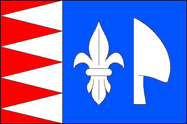 Flag of Hluchov, Prostějov District